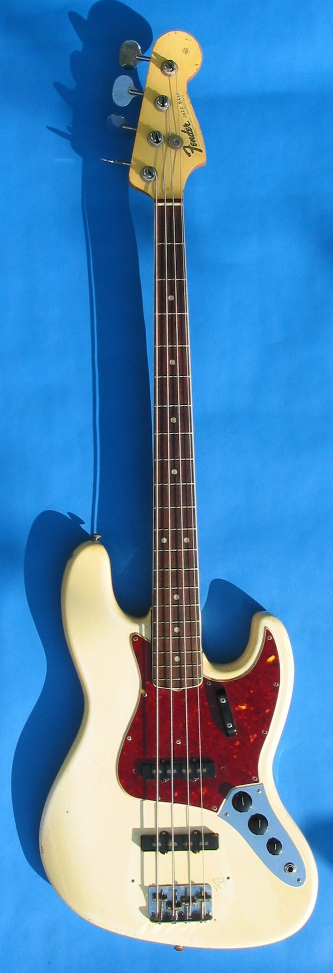 Fender Jazz Bass from 1966 in Olympic white with the "transition" fingerboard (Bindings and Dot Inlays)